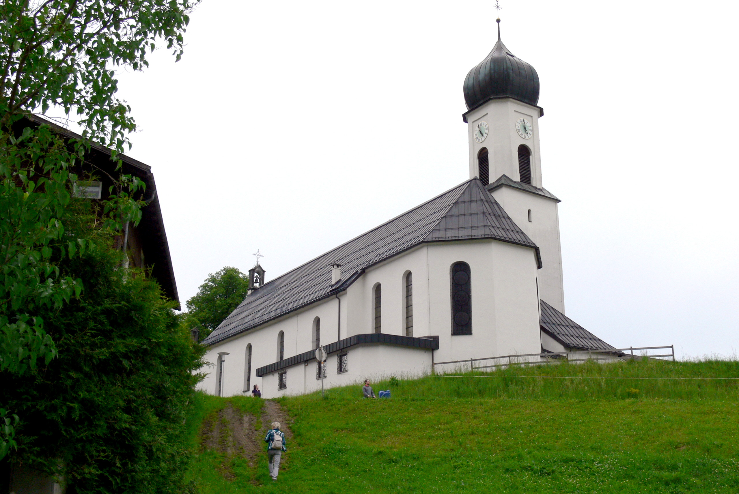 Andelsbuch ( Vorarlberg ). Saint Peter and Paul parish church, seen from Diedo fountain.